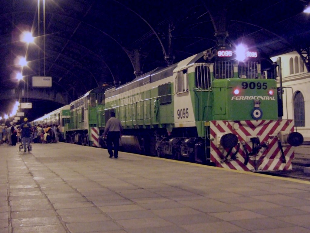 Argentine Train in the station of San Miguel de Tucumán. Train: Buenos Aires - San Miguel de Tucumán of the Ferrocentral network at it's arrival in Tucumán.